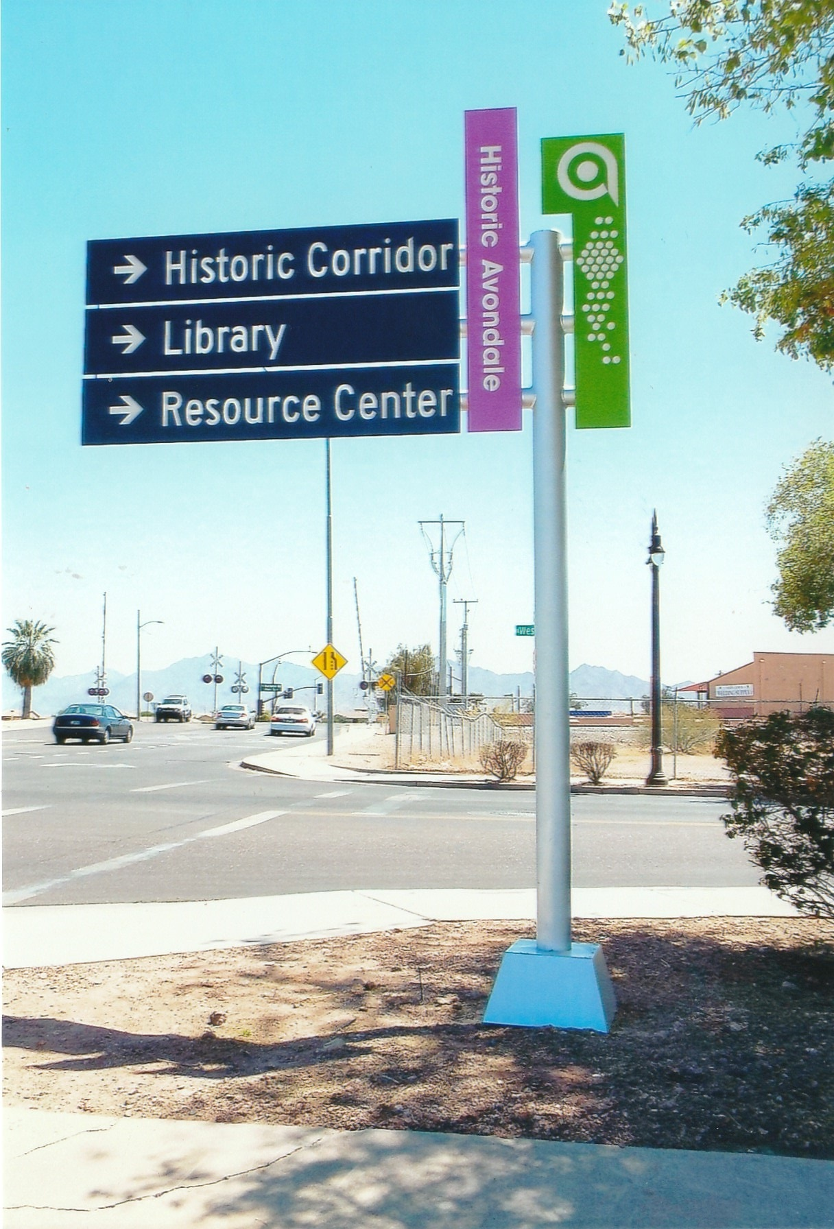 Street sign indicating the location of the “Historic Corridor”, “Library” and “Resource Center” in the town of Avondale, Arizona.